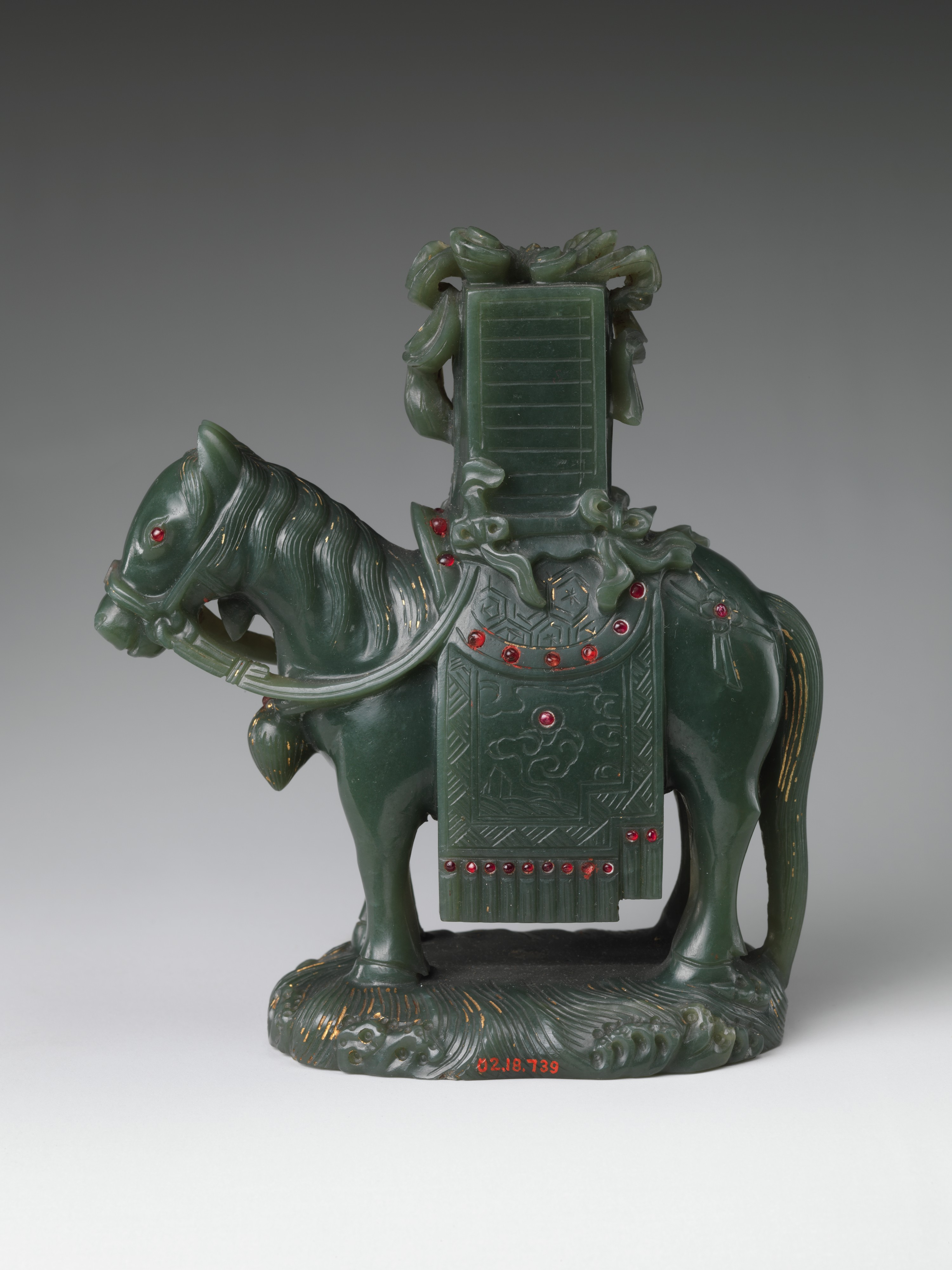 清 碧玉馬寶 Horse carrying books Period: Qing dynasty (1644–1911) Date: 18th–19th century Culture: China Medium: Jade (nephrite) Dimensions: H. 4 9/16 in. (11.6 cm); W. 4 1/8 in. (10.4 cm); D. 2 1/16 in. (5.3 cm) Classification: Jade Credit Line: Gift of Heber R. Bishop, 1902